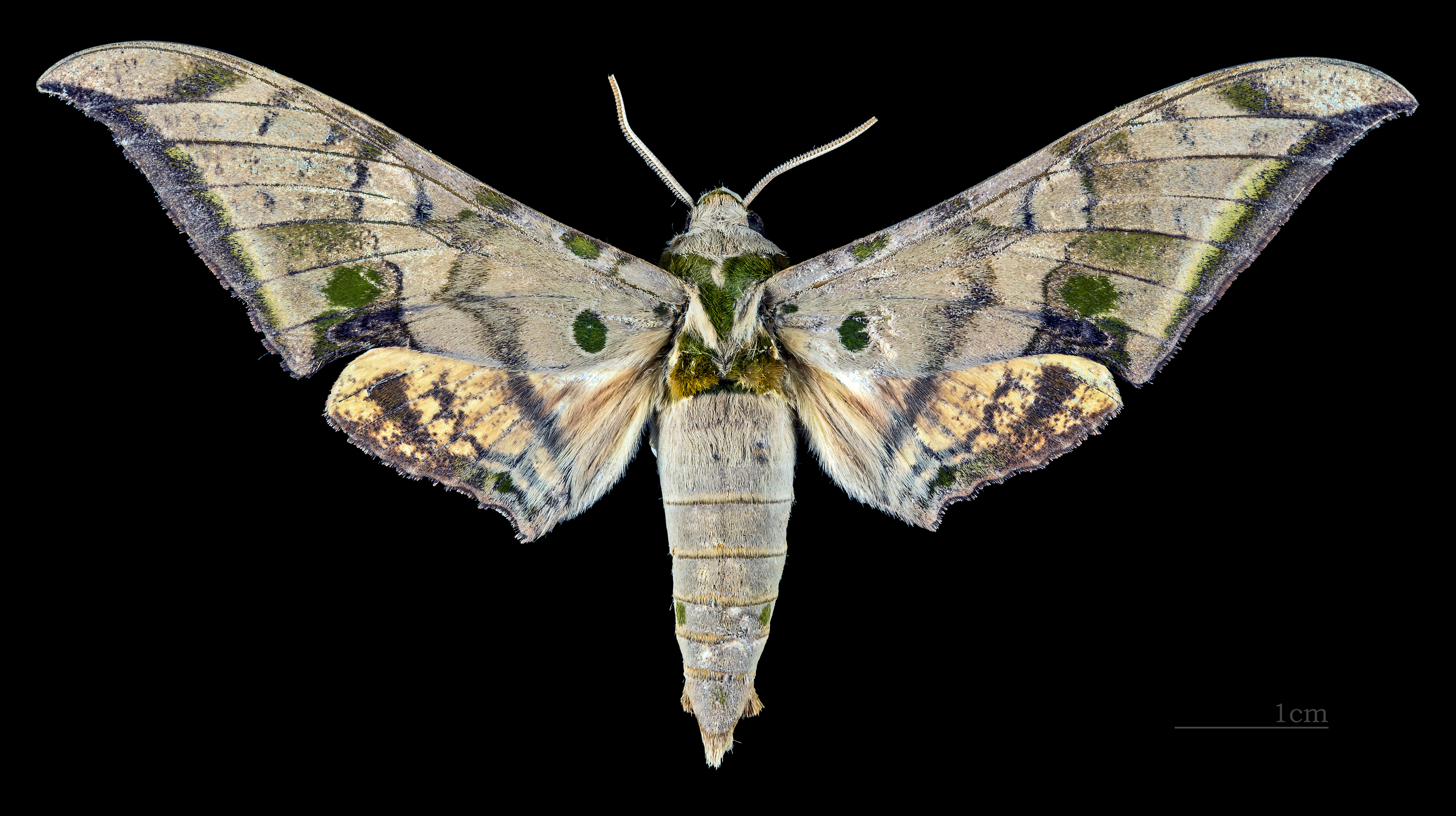 Ambulyx schauffelbergeri - Dorsal side Collection of the Mathematician Laurent Schwartz